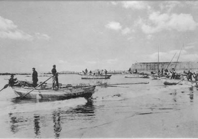 Old picture of Póvoa de Varzim, Portugal